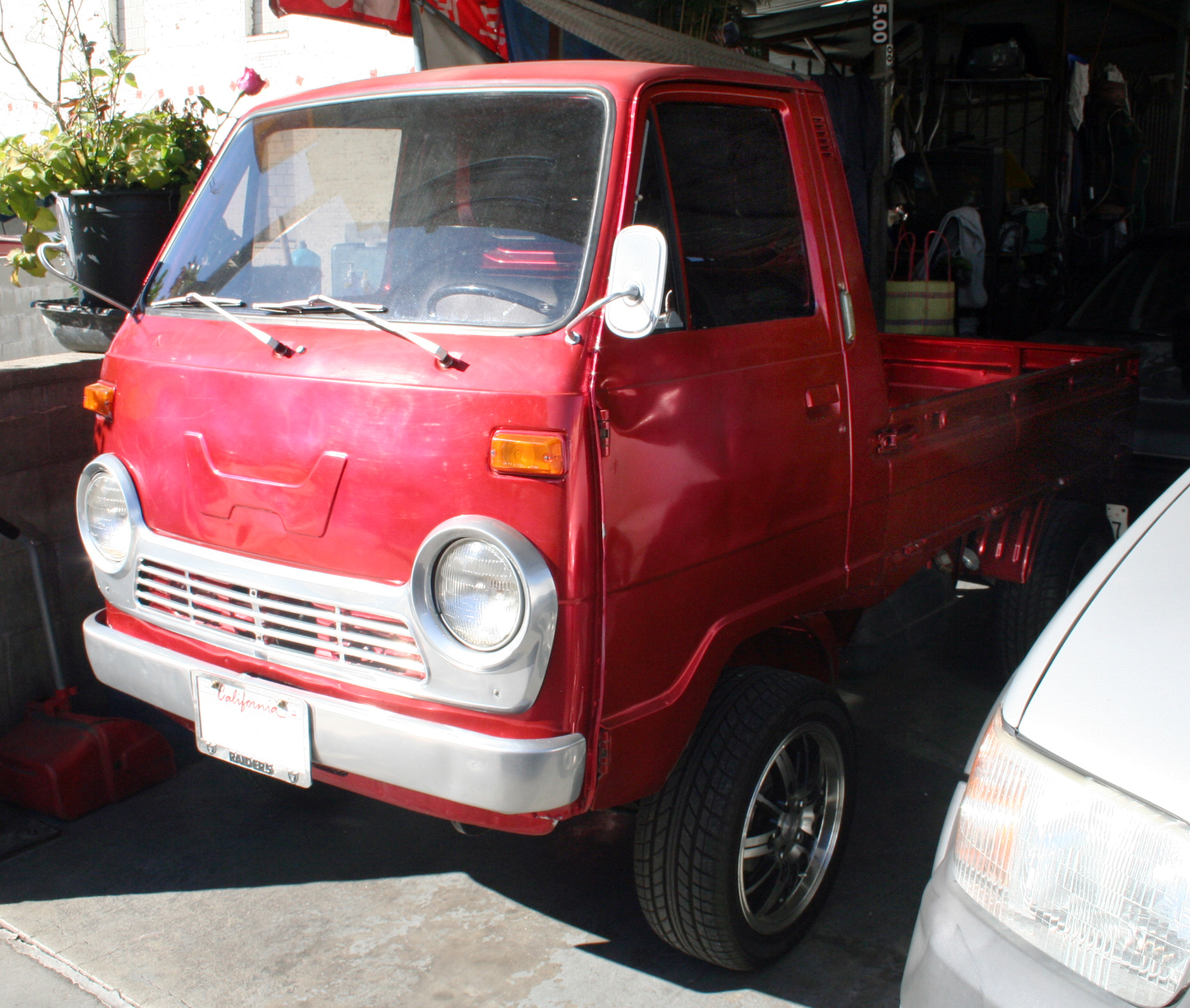 Honda TN-III 360cc Kei truck in Los Angeles, CA - original left hand drive, plated, etcetera!